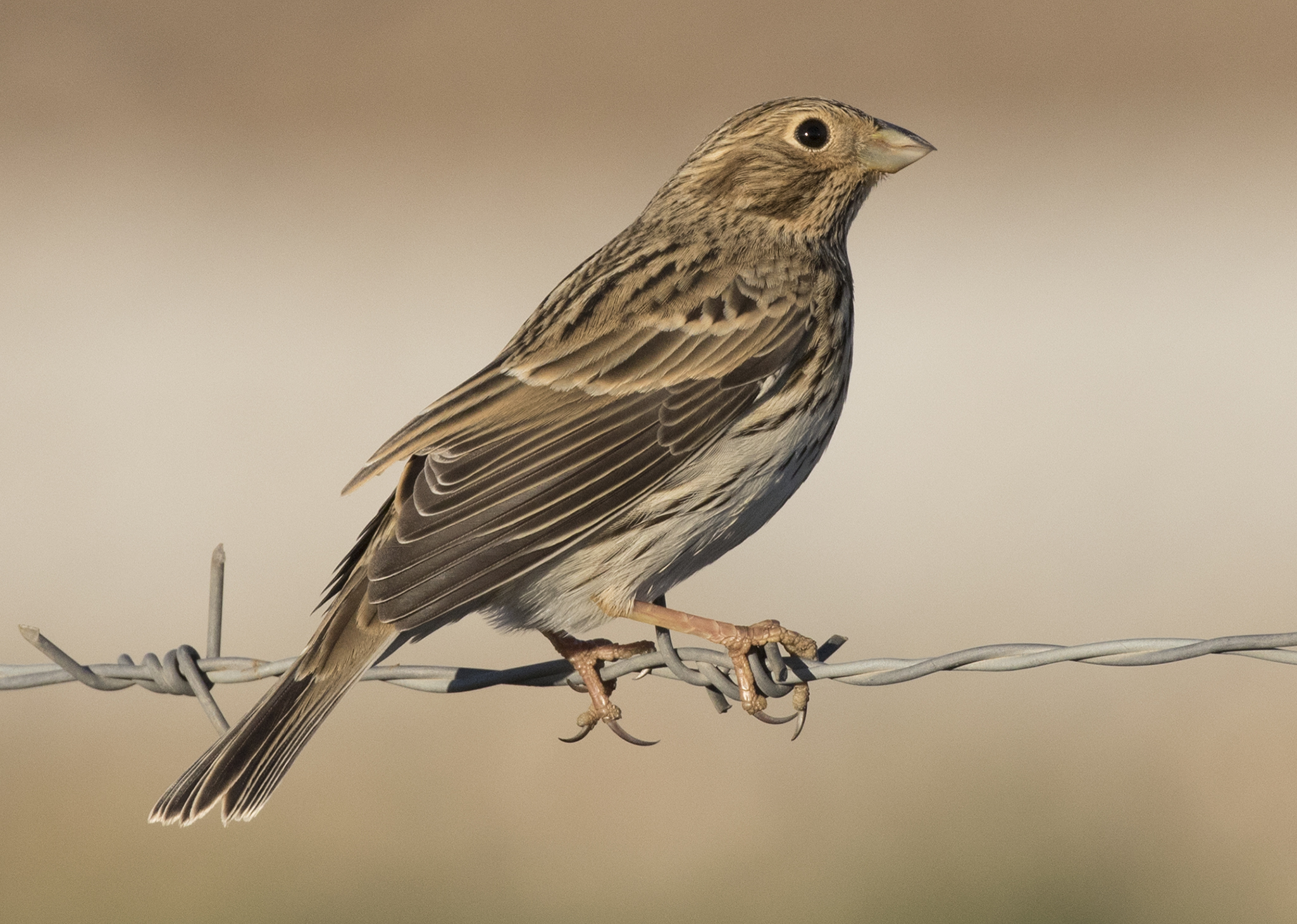 Corn Bunting (Emberiza calandra) in Afşar Village, Kahramanmaraş - Turkey.